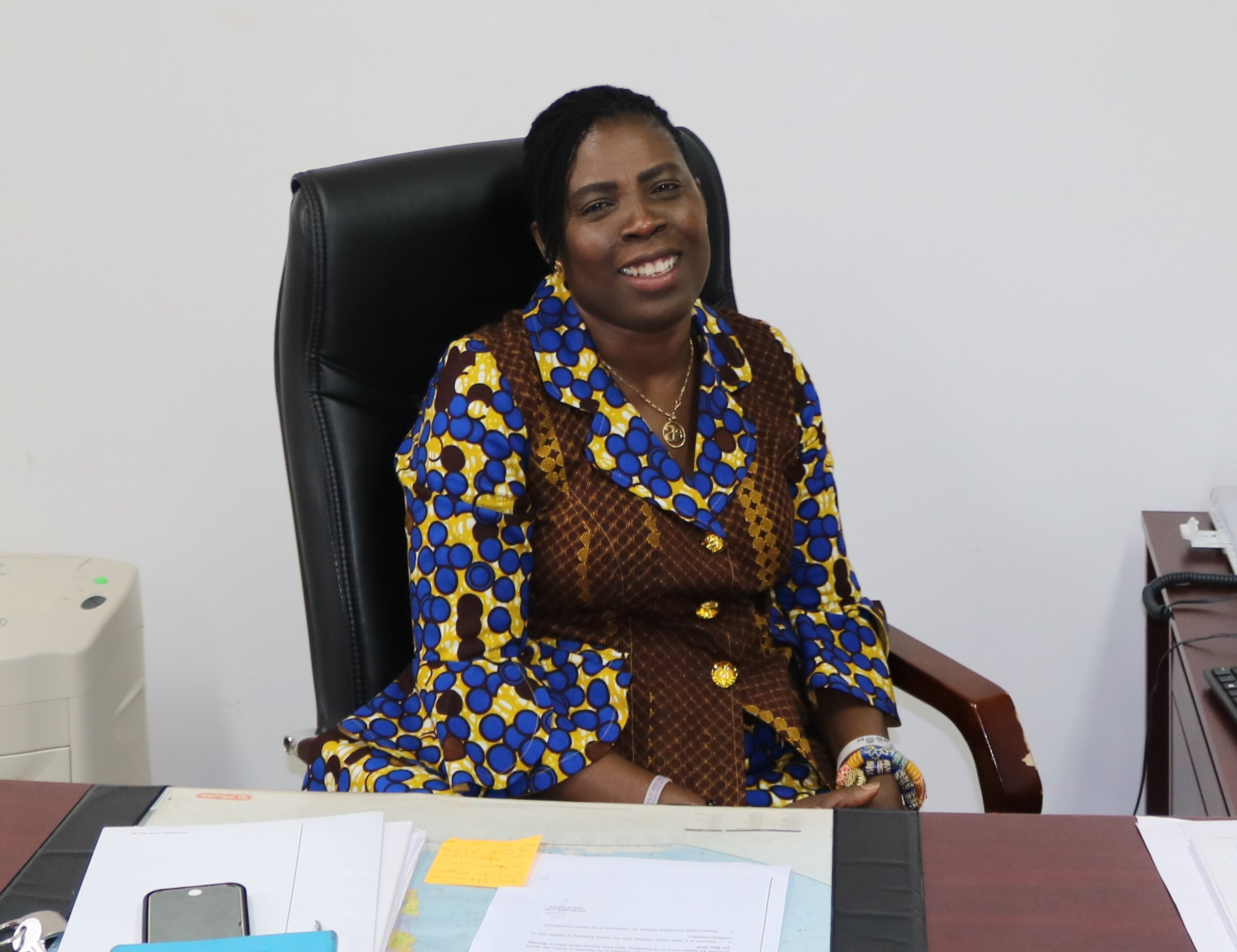 Portrait of Amma Twum Amoah.